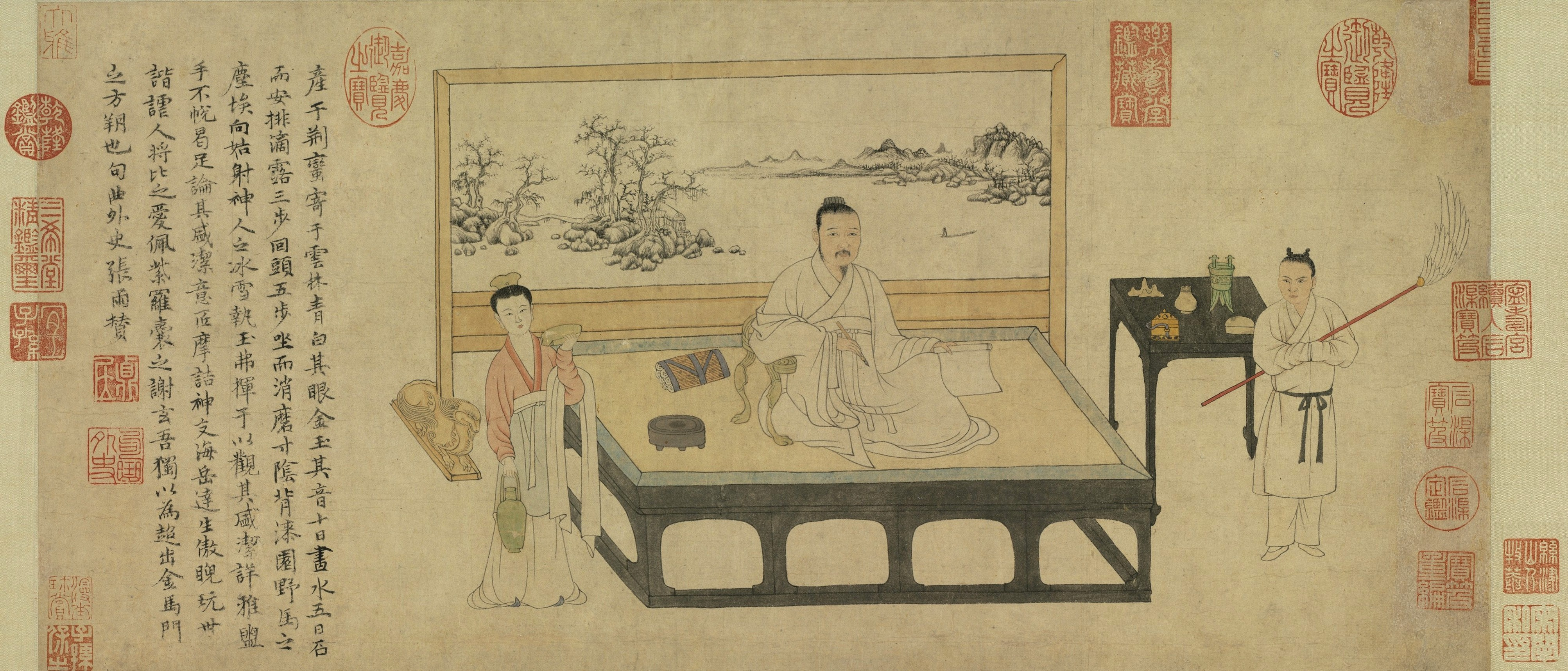 “According to the inscription by Zhang Yu at the left side, the main figure in this scroll is none other than Ni Zan (1301-1374), one of the Four Yuan Masters of painting. The landscape on the screen behind is also intentionally done in imitation of Ni's style. The pose of the figure is also borrowed from that of Vimalakirti in Buddhist painting, transforming the image of Ni Zan into that of a refined and lofty recluse. The painting with intentional pale colors depicts Ni Zan with brush and paper, as if about to pour out his heart. By Ni's side is an attendant holding a flywhisk, water vessel, and washbasin in an apparent reference to his fastidious cleanliness. Zhang Yu, a close friend of Ni Zan, here wrote an inscription of praise, part of which reads: "Gazing askance at the fullness of life, he takes the world lightly with a sense of humor." Outer appearance revealing the inner spirit is exactly what the portrait attempts to achieve. This scroll reflects an important friendship in Chinese painting and the development of literati portraiture, having great period significance and artistic quality as well.”— National Palace Museum “據張雨（1283-1350）題贊，畫中的主角是「元四大家」之一的倪瓚（1301-1374）。畫中屏風山水刻意模仿倪氏風格，並借用佛畫中維摩詰居士的坐姿，來塑造倪瓚風神清朗的隱士形象。全幅用色刻意淺淡，倪瓚濡筆伸紙，似欲一吐胸懷，身旁侍者手持的拂塵、水瓶、水匜等，均凸顯其潔癖習性。張、倪兩人為知交，張於題贊中稱倪：「達生傲睨，玩世諧謔。」從外在形象直透其內在神氣，與畫像恰可對映。此卷體現一段重要的畫史情誼與文人肖像畫的發展，甚具時代意義與藝術特質。”— 國立故宮博物院